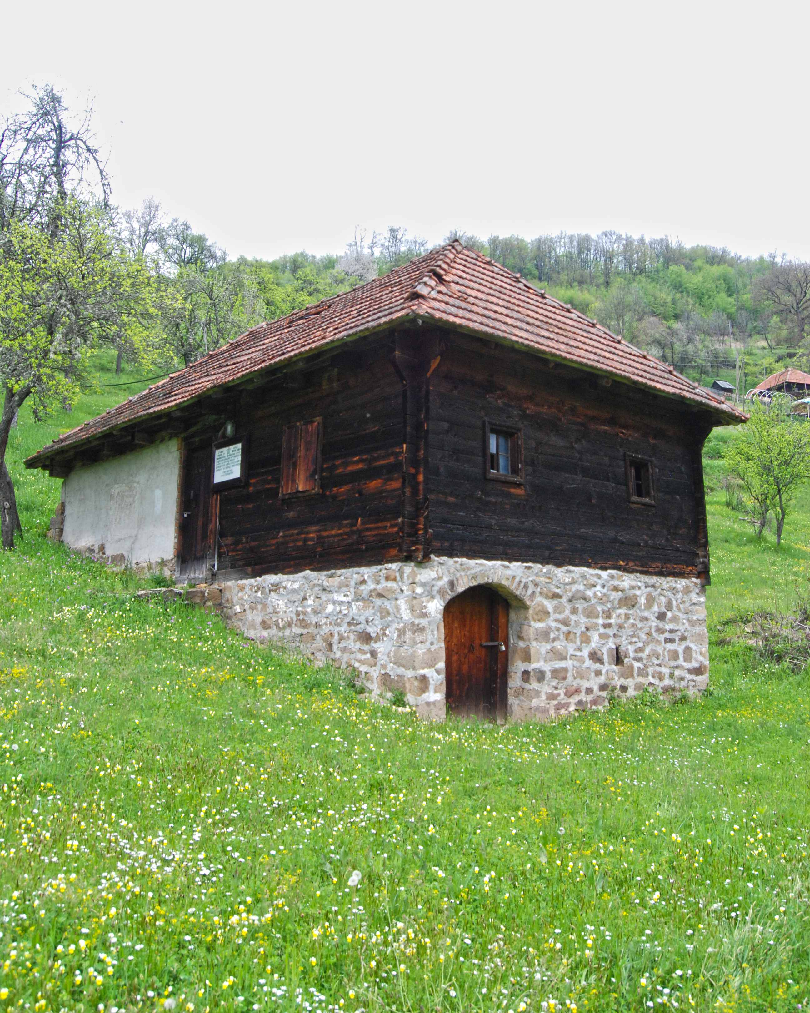 The house of Veniamin Marinkovic is located in Devici village in Ivanjica, Serbia.Српски (ћирилица): Кућа у којој је живео Венијамин Маринковић налази се у селу Девићи у Ивањици, Србија.